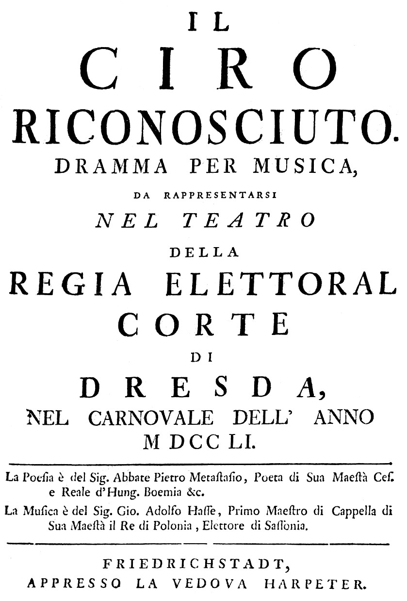 Johann Adolph Hasse - Ciro riconosciuto - italian titlepage of the libretto - Dresden 1751